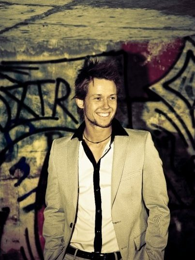 Founder of Team JiYo. Freerunner, stuntman and model.